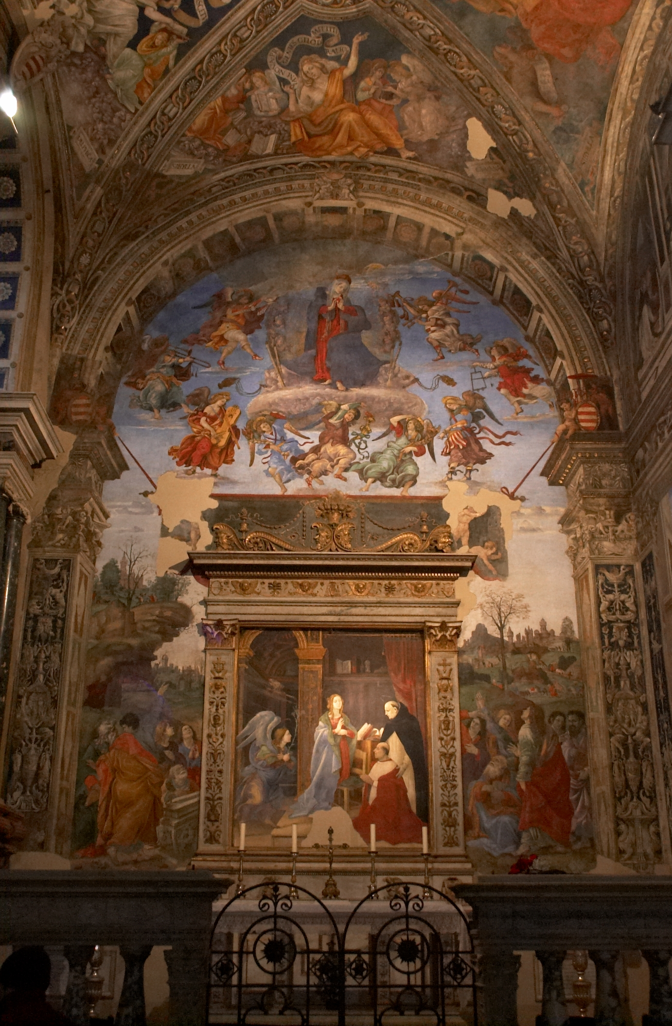 see above